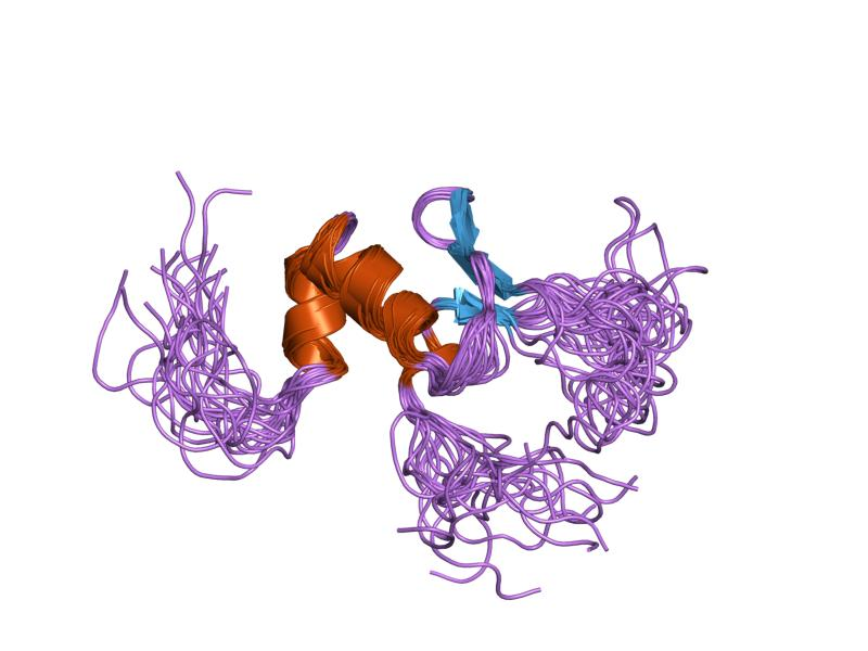 Cartoon representation of the molecular structure of protein registered with 2ct5 code.